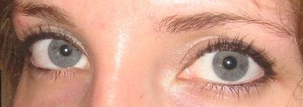 These are my eyes when they are gray.